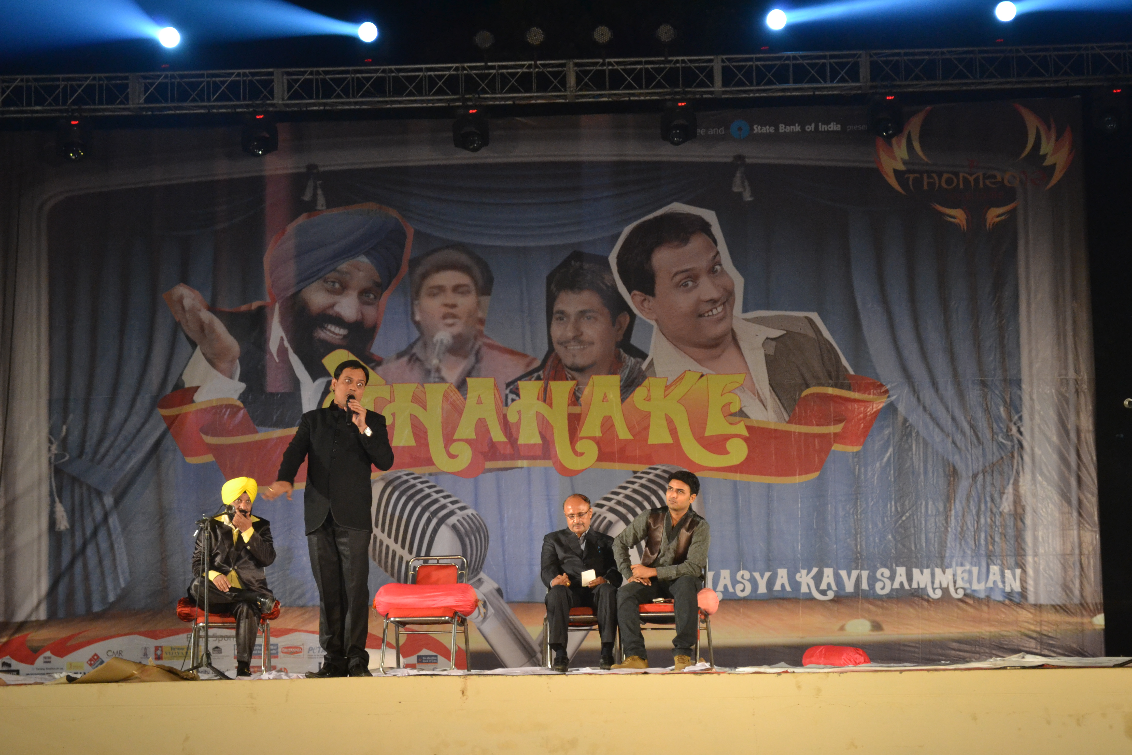 Thahake